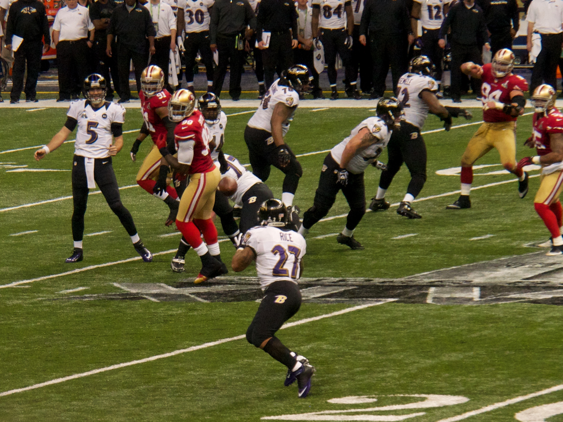 Baltimore Ravens quarterback Joe Flacco attempts a pass to Ray Rice in Super Bowl XLVII.